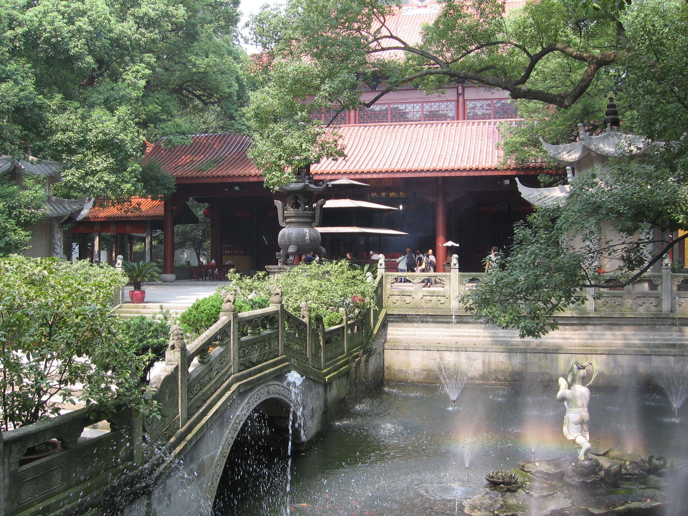 An example of a classical Chinese garden